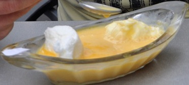 madártej - Hungarian dessert